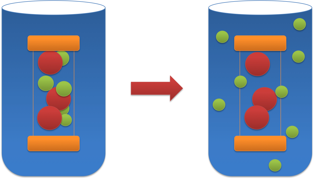 own work